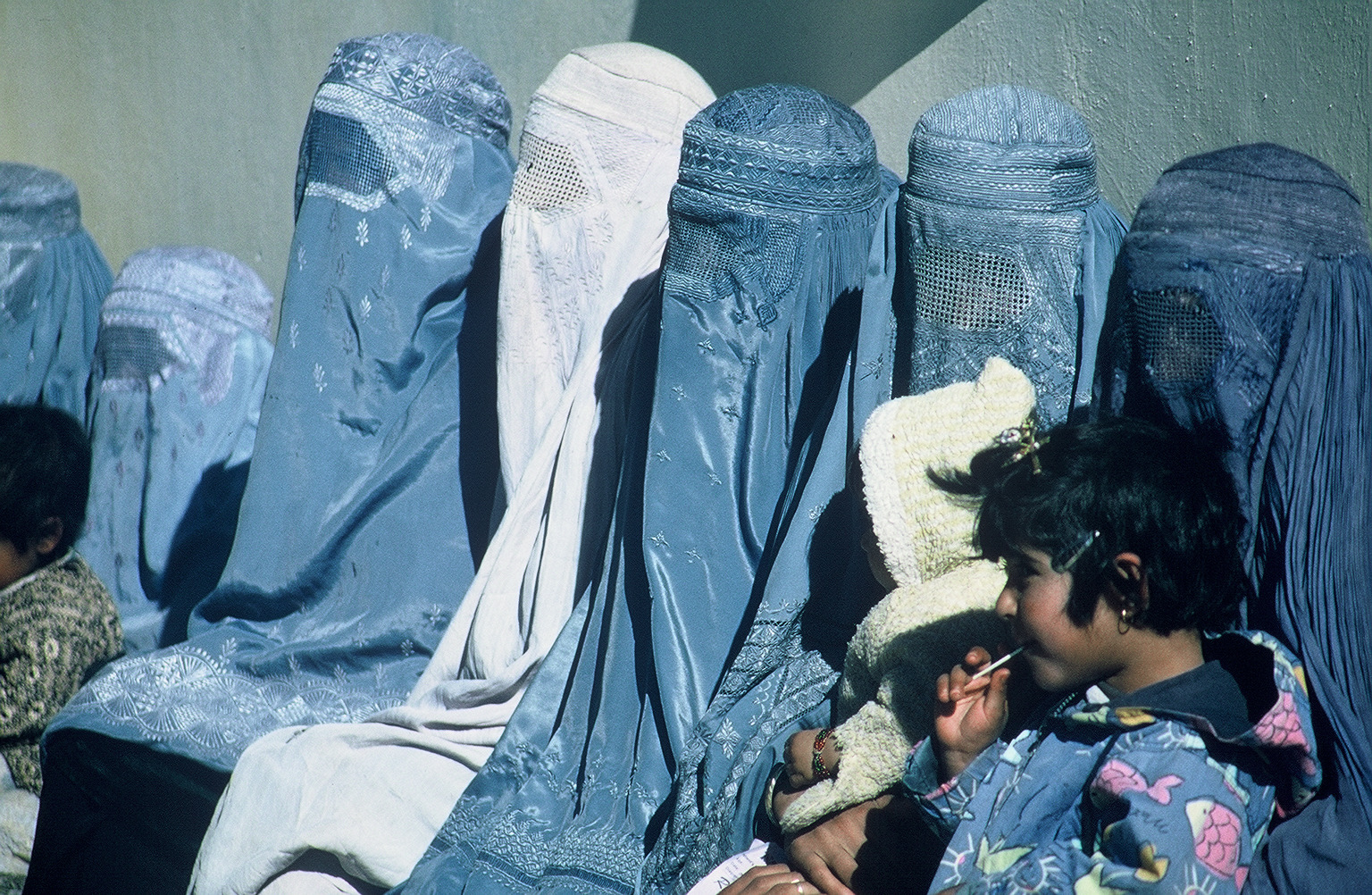 A Group of Women Wearing Burkas. Afghanistan women wait outside a USAID-supported health care clinic.